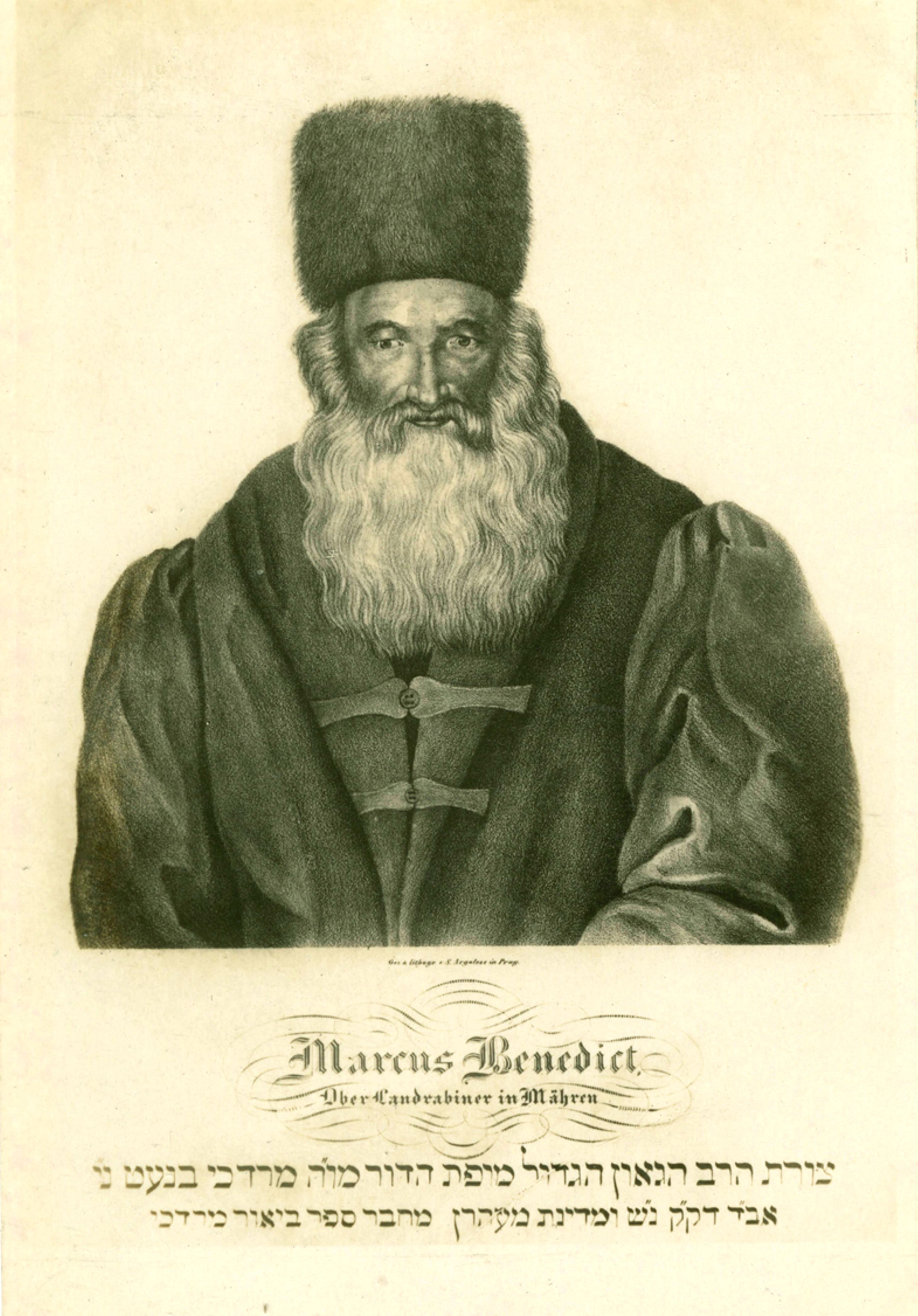 Rabbi Mordecai Benet, original portrait